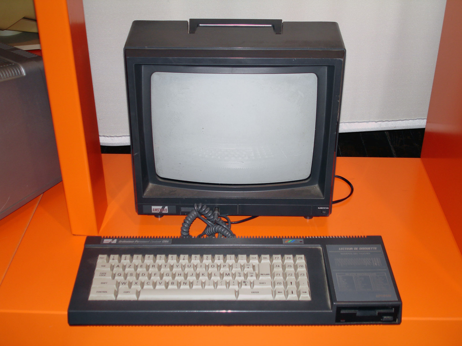 Amstrad CPC 6128 personal computer (French version, "Ordinateur Personnel Coleur"). As seen in the Musée de l'Informatique à La Défense, Hauts-de-Seine, France.